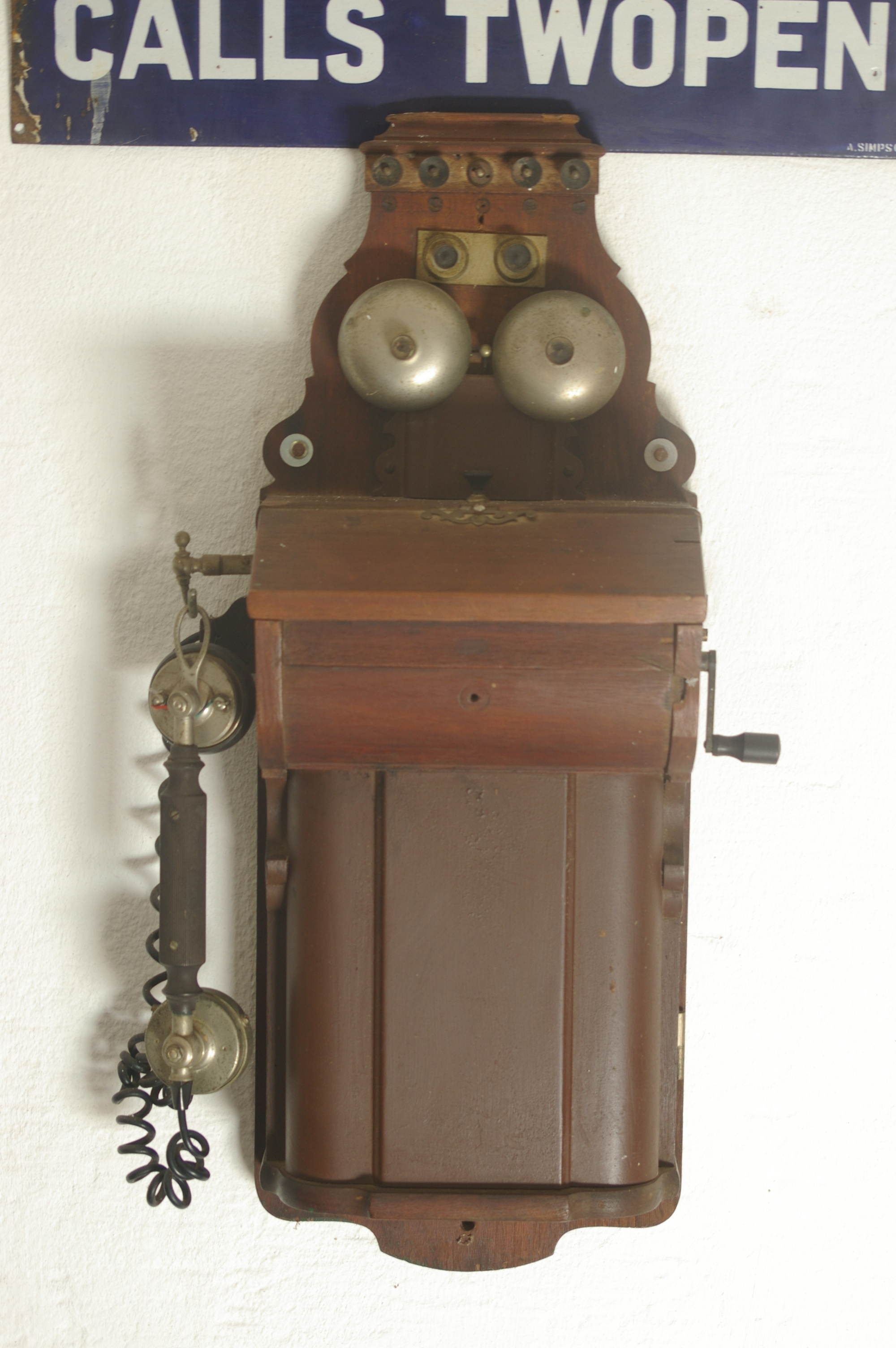 telephone